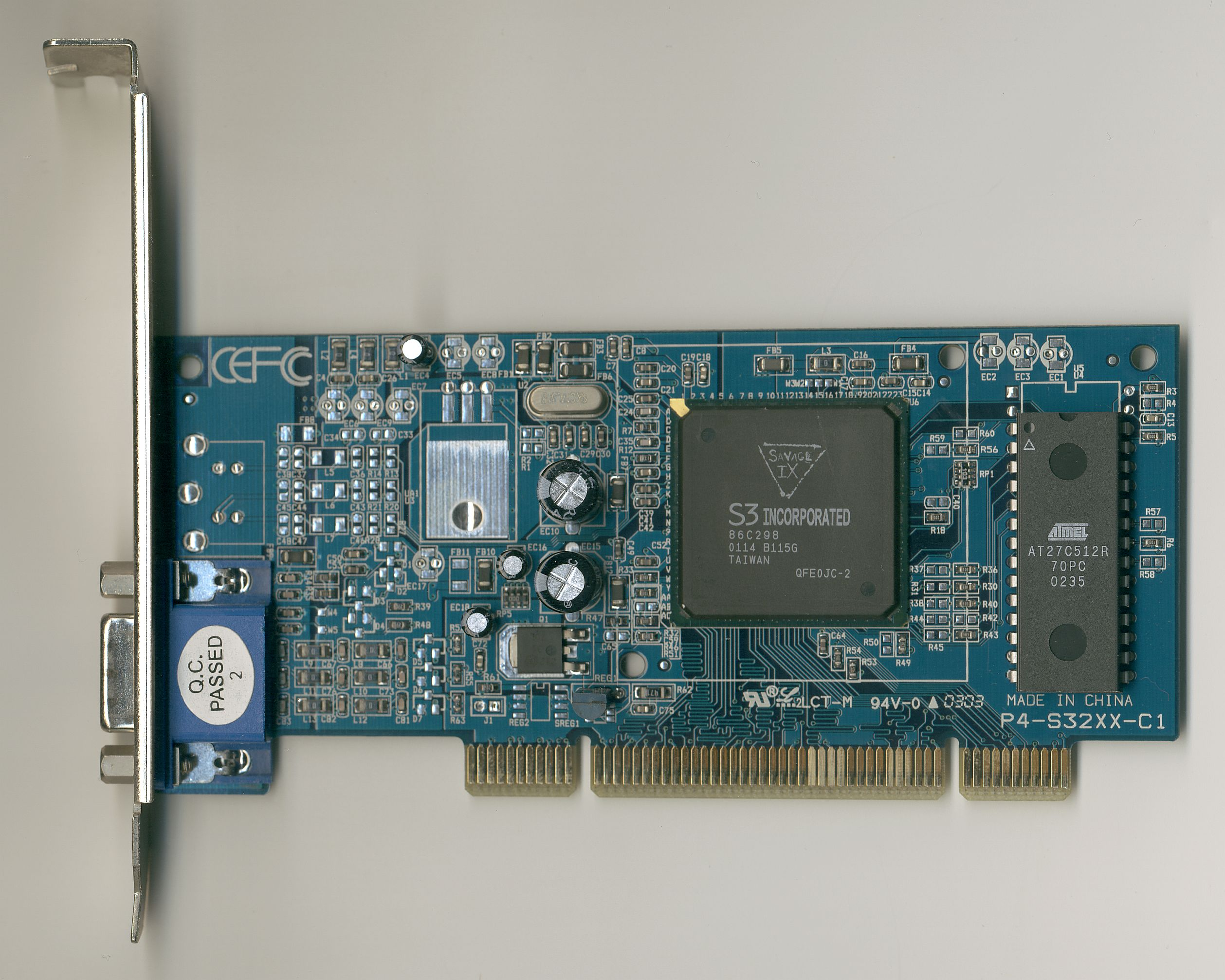 Description : S3 graphics SavageIX PCI 8MB SDRAM Photographer/Painter : mac3216